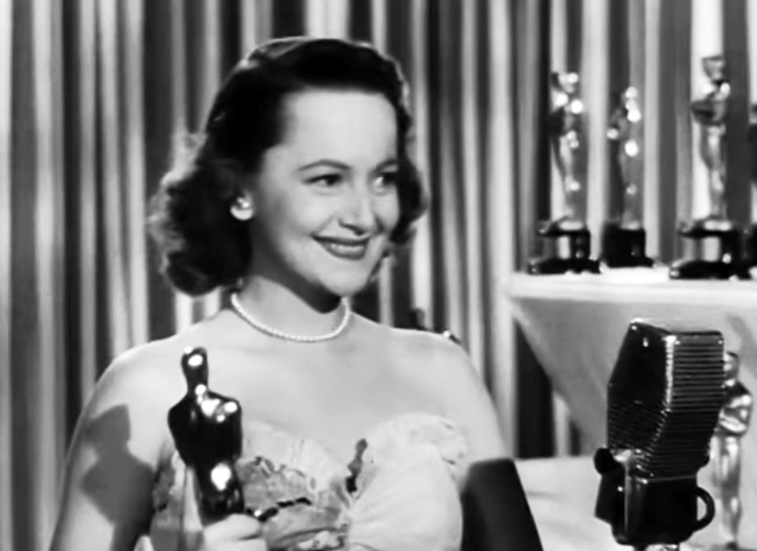 Olivia de Havilland accepting her Oscar for To Each His Own at the 19th Academy Awards ceremony, March 13, 1947